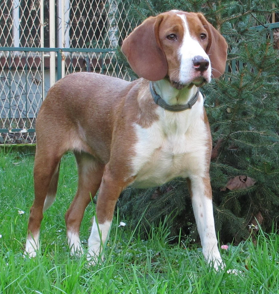 Cropped image of young Posavac hound female